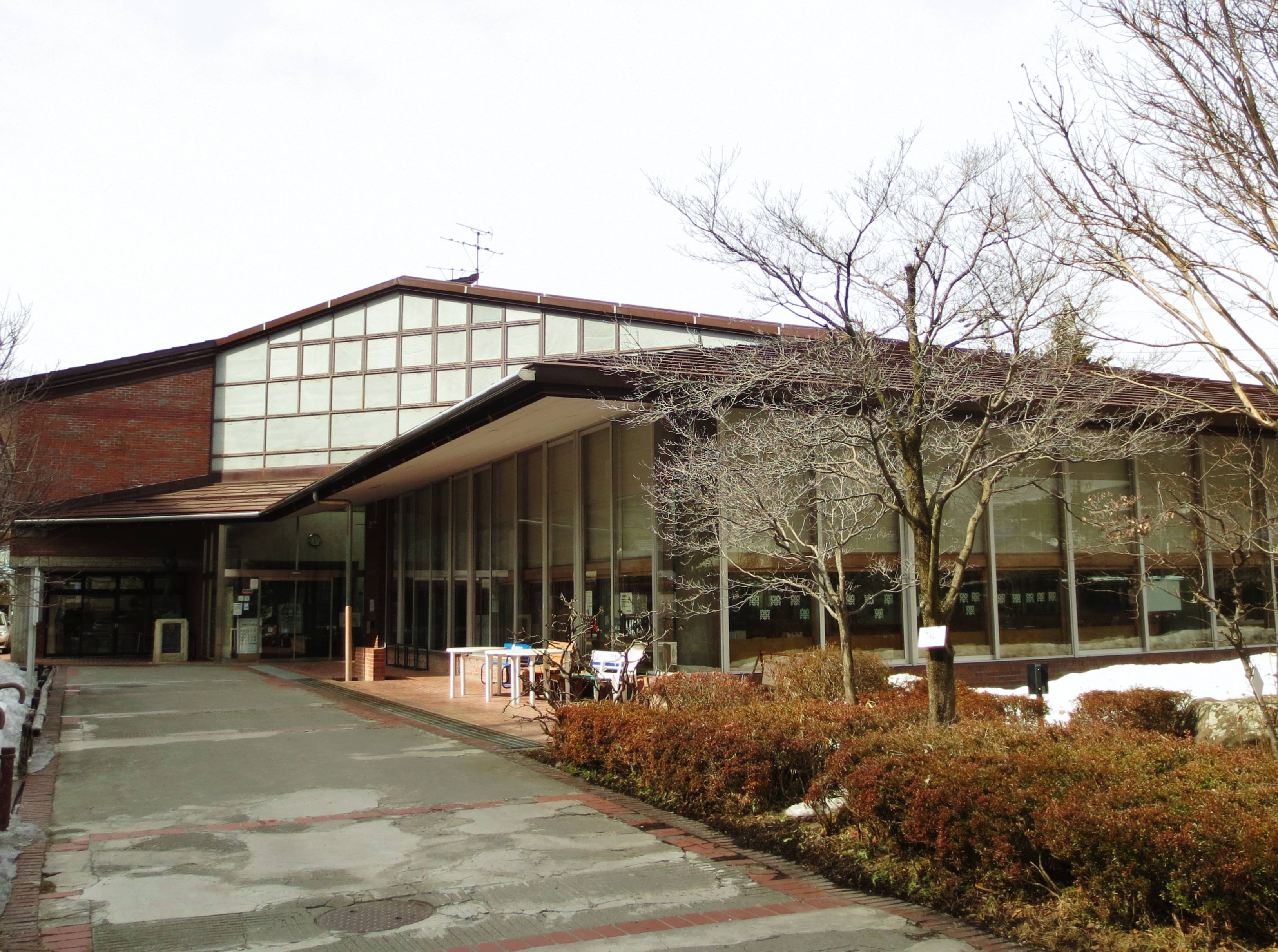 Okaya city library.